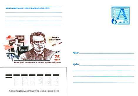 BelPost's envelope, 2002. 75 anniversary Ales Adamovich. The artist - Mikola Ryzhy.